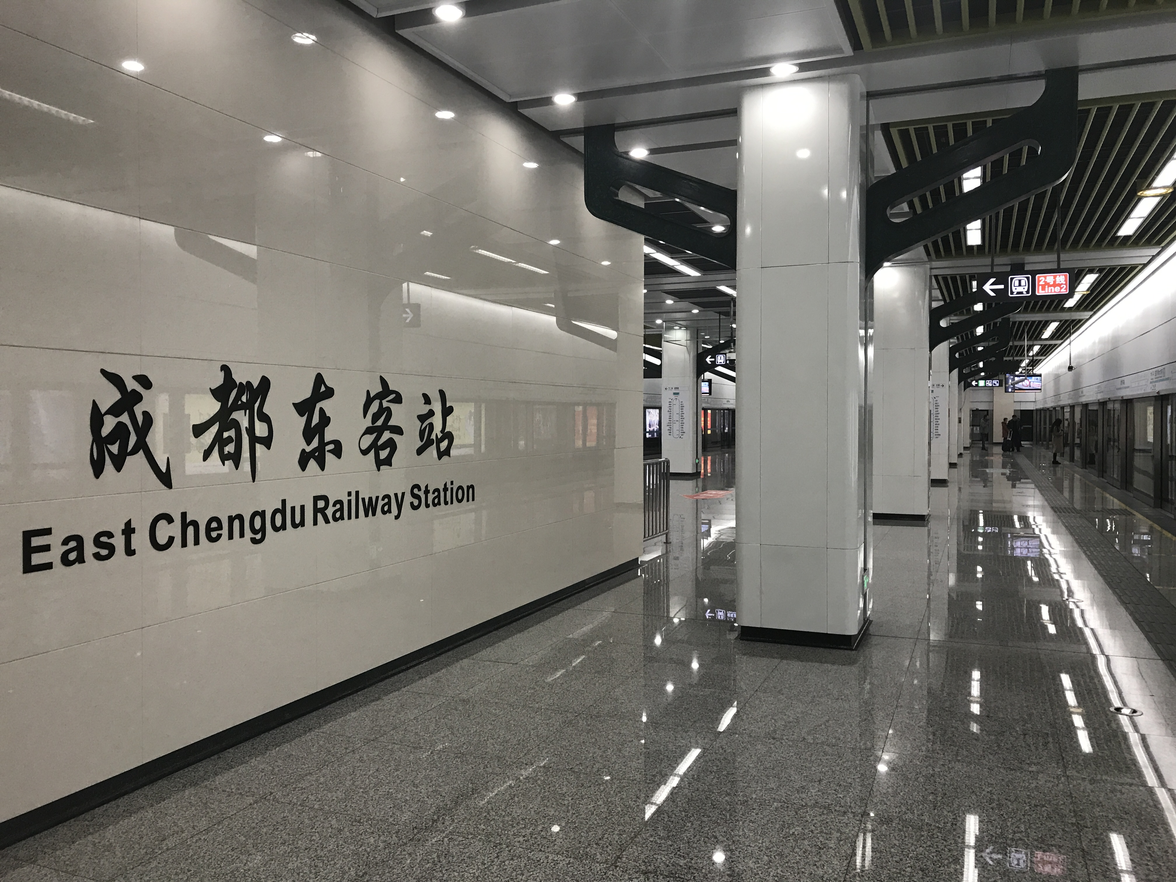 Platform of Chengdu East Railway Station, Line 7, Chengdu Metro